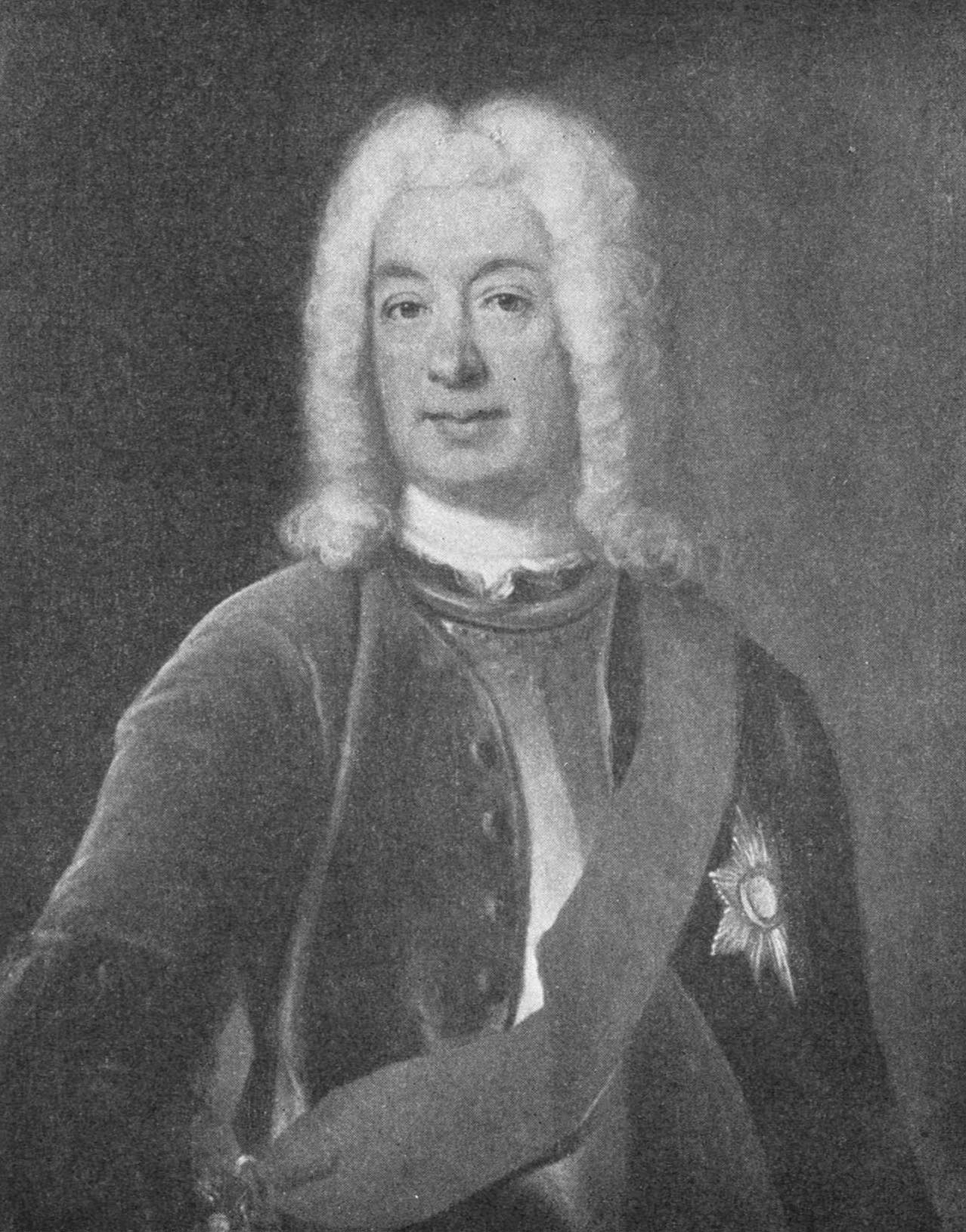 Nils Bonde af Björnö (1685-1760), Swedish count, officer and county governor of Södermanland.